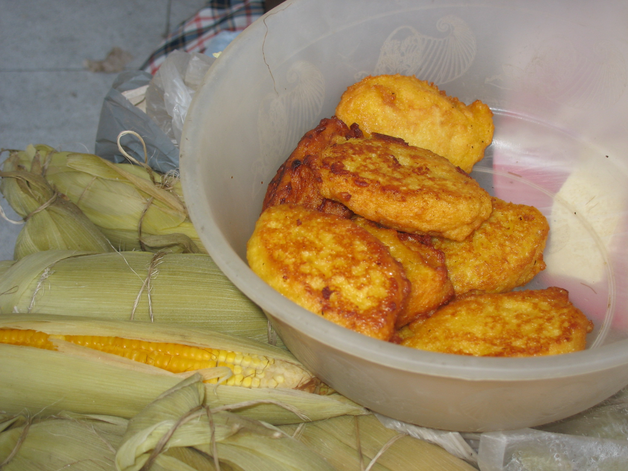 Barranquilla maize buñuelos (sweet corn fritters)